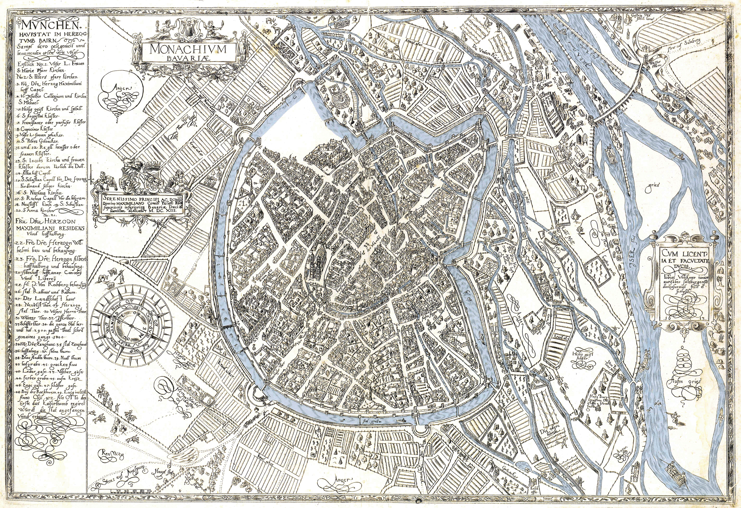 perspectivic town map of Munich with colored town streams